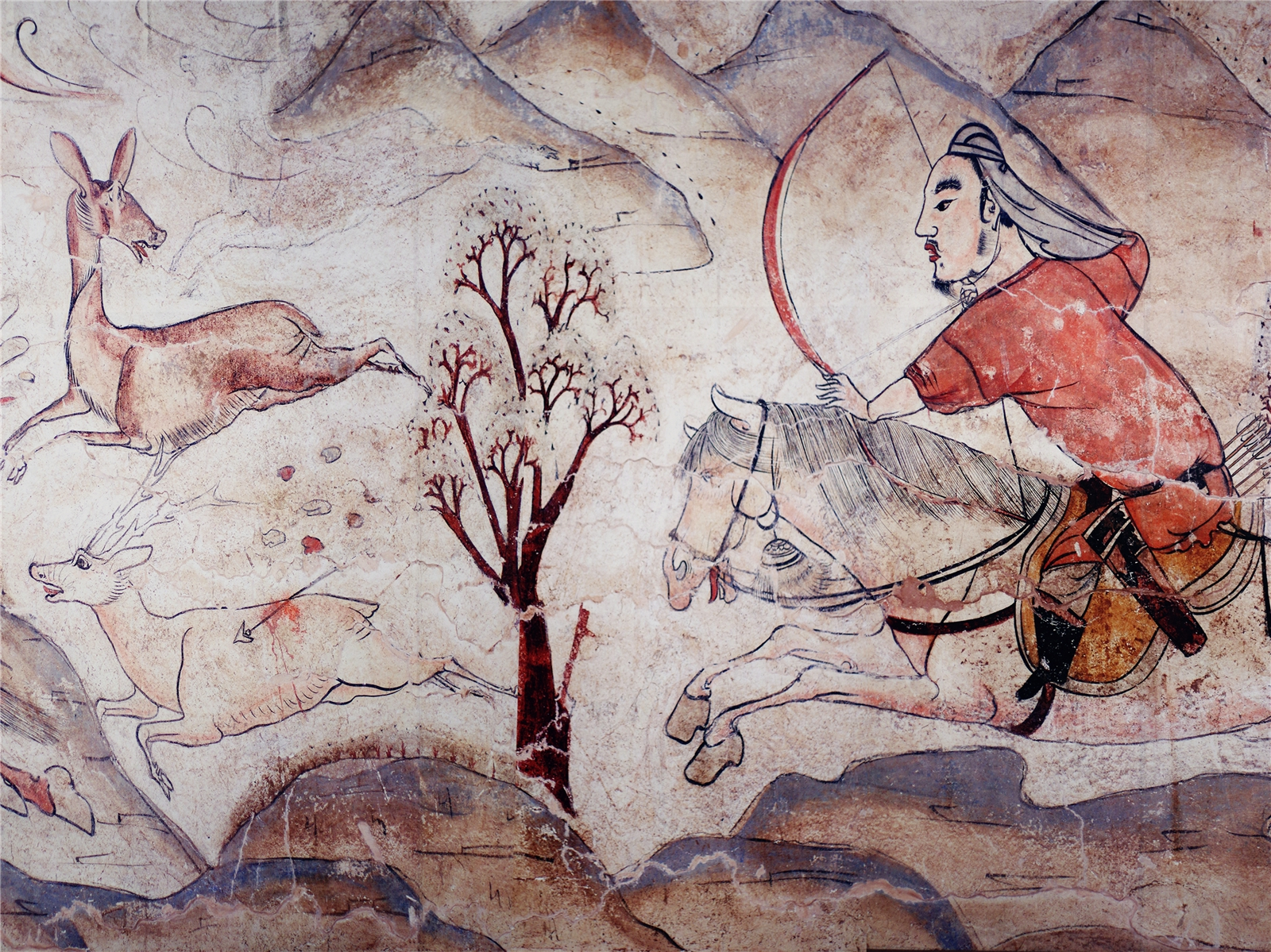 Mural from a tomb of Northern Qi Dynasty in Jiuyuangang, Xinzhou